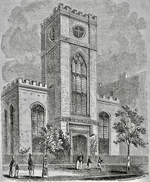 728 Broadway, between Waverly Place and Washington Place. Later used as a theater.